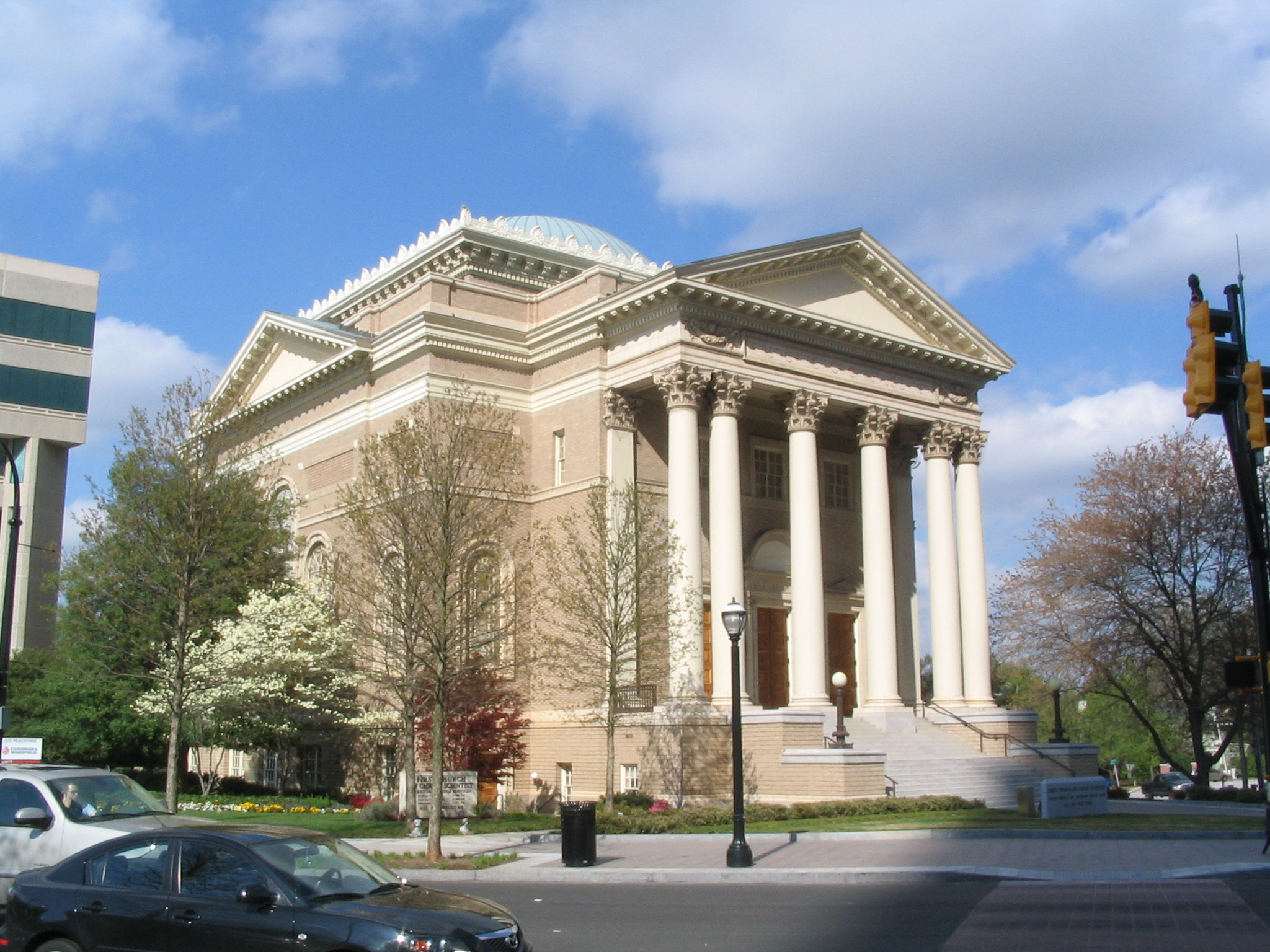 Picture I took of First Church of Christ, Scientist while I was in Atlanta.